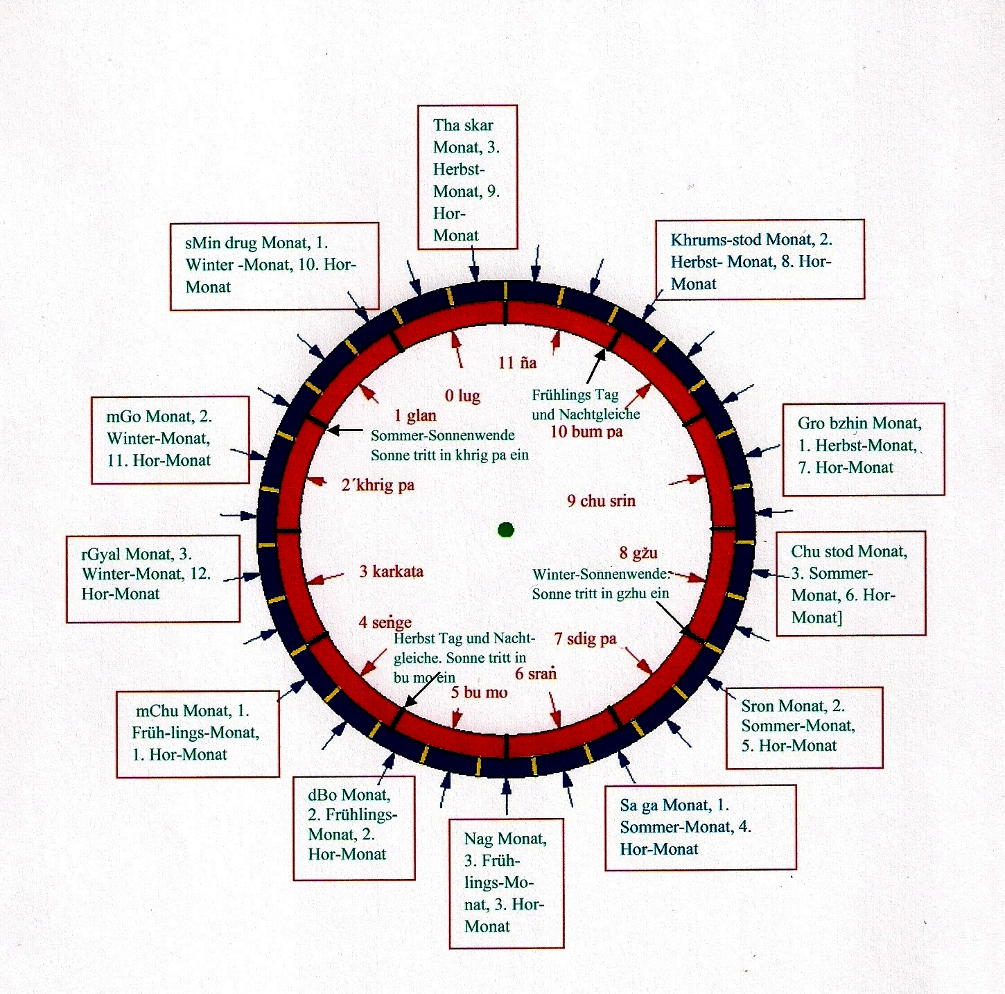 The Tibetan ecliptic, Months and Seasons according to the Kālacakrāvatāra of Abhayākaragupta (1084–1130)